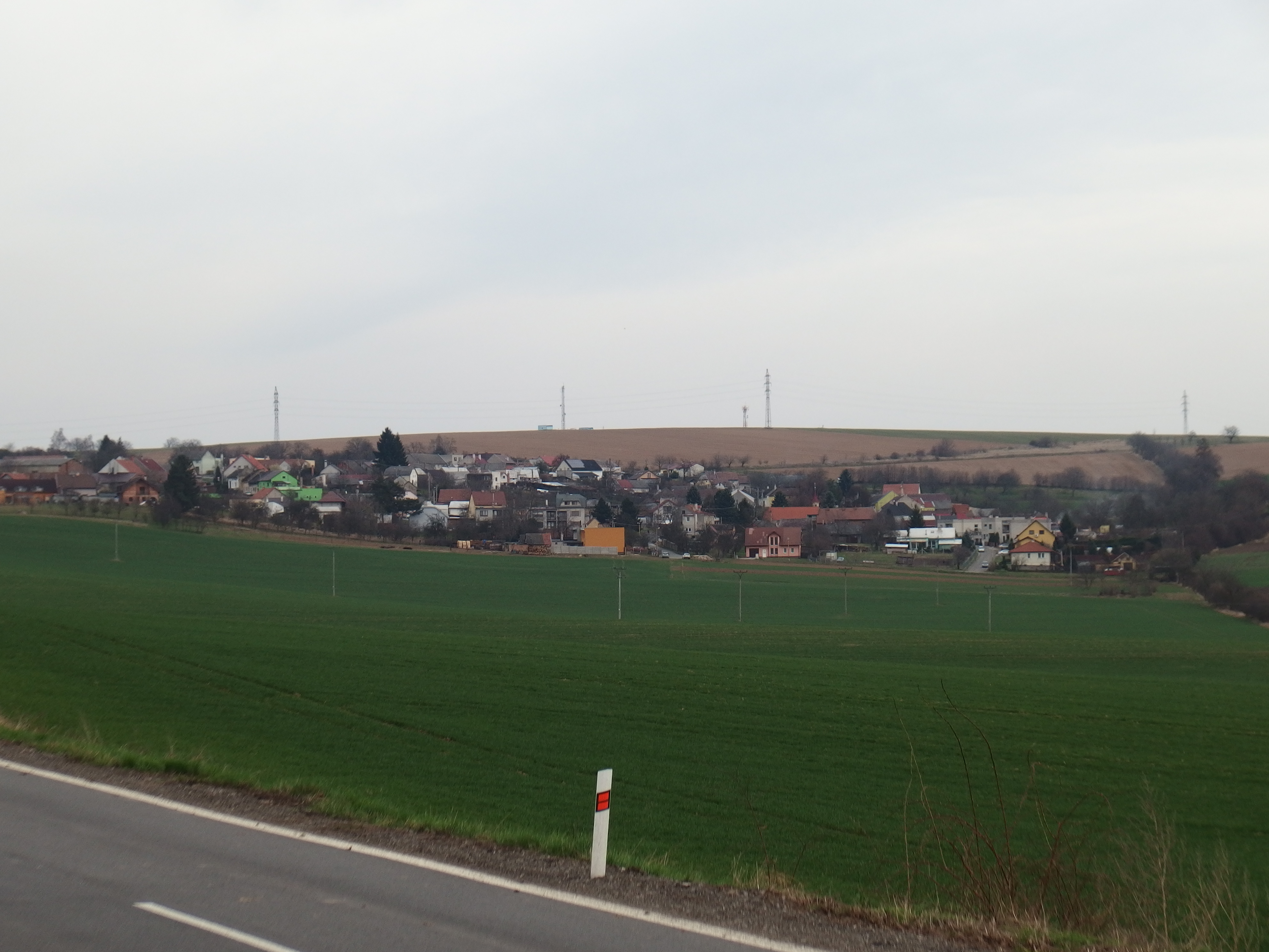 Počenice-Tetětice, Kroměříž District, Czech Republic, part Tetětice.